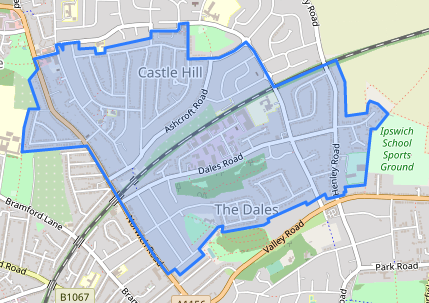 Open Street Map with area shaded blue for Castle Hill Ward, Ipswich This map of North West Ipswich was created from OpenStreetMap project data, collected by the community. This map may be incomplete, and may contain errors. Don't rely solely on it for navigation.